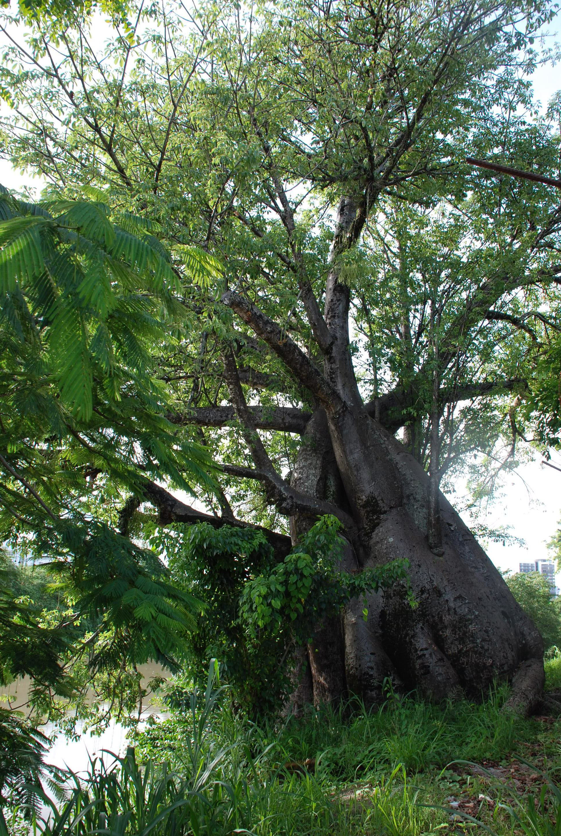 Baobab by the Capibaribe River in Ponte d'Uchoa, Recife